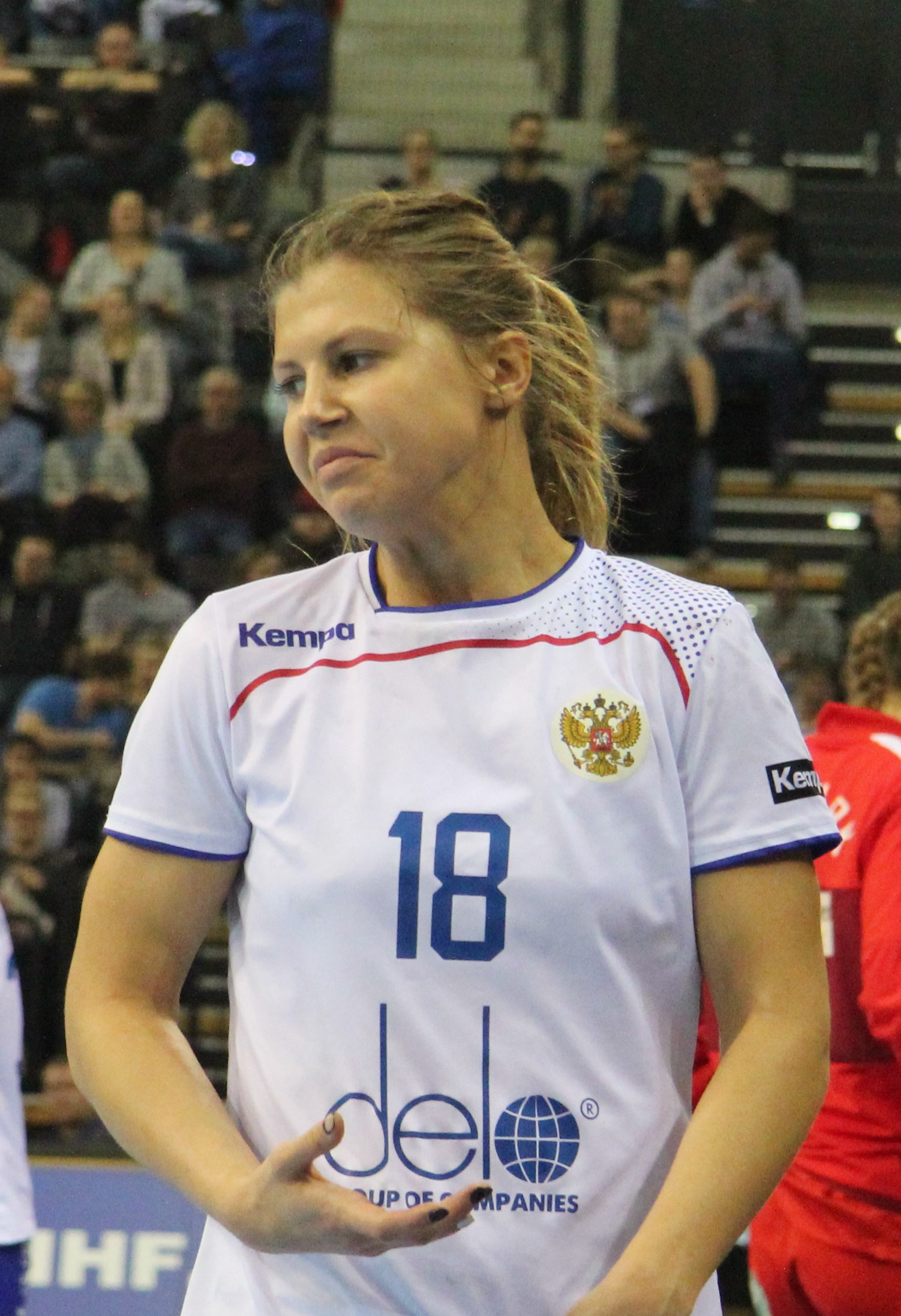 Russian handball player Daria Samokhina during 2017 IHF World Championsips in Germany